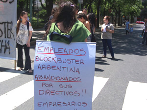 Manifestation of Blockbuster employees in Buenos Aires, Argentina, against the systematic closure of branches.